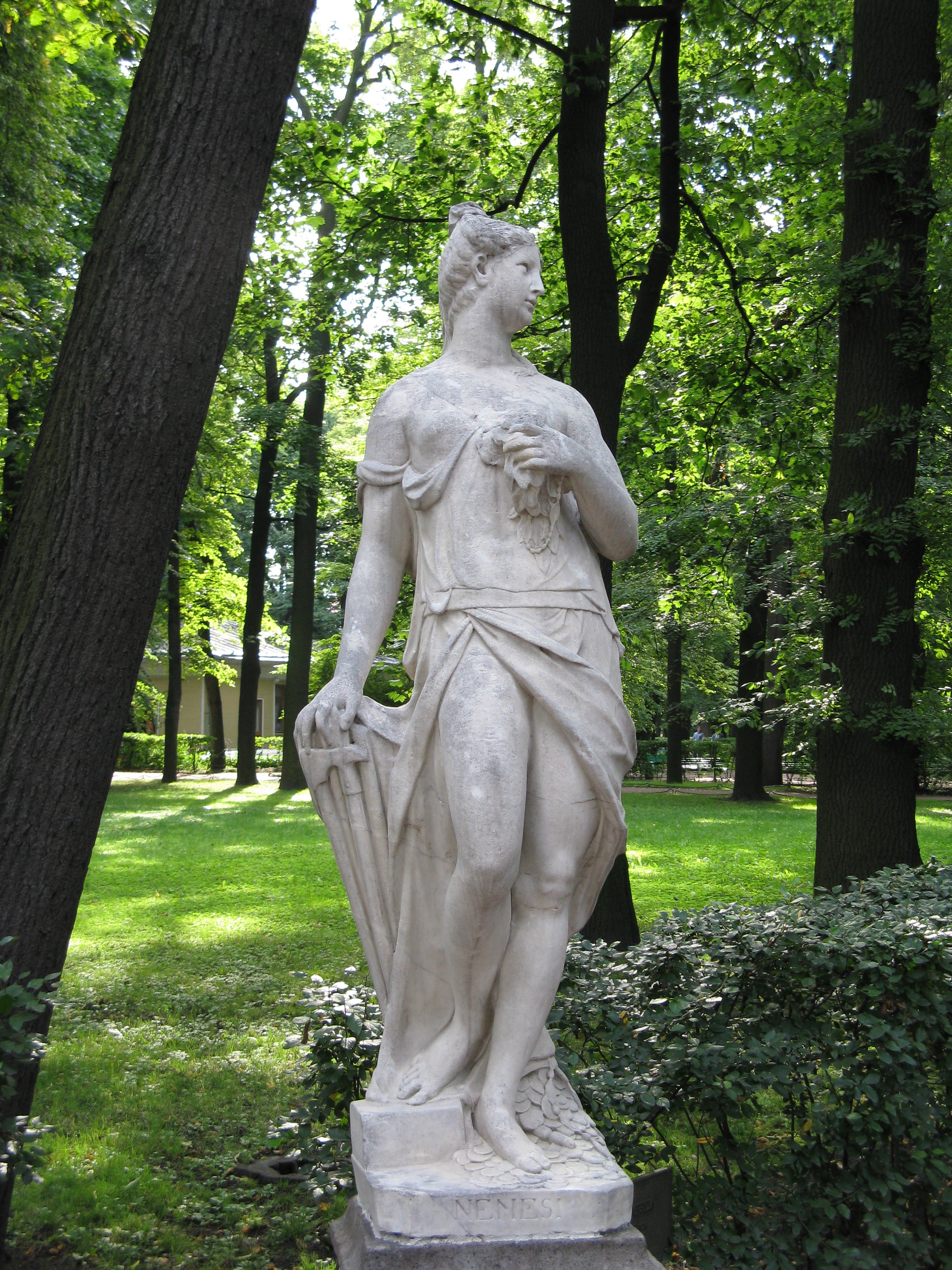 Nemesis by Antonio Tarsia, 1717, at Summer Garden.